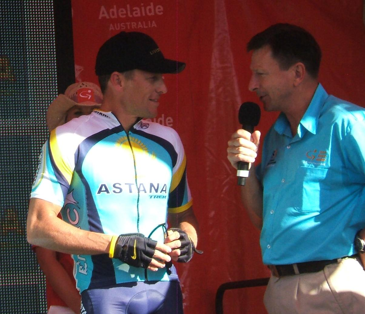 Lance Armstrong at the en:2009 Tour Down Under team presentation